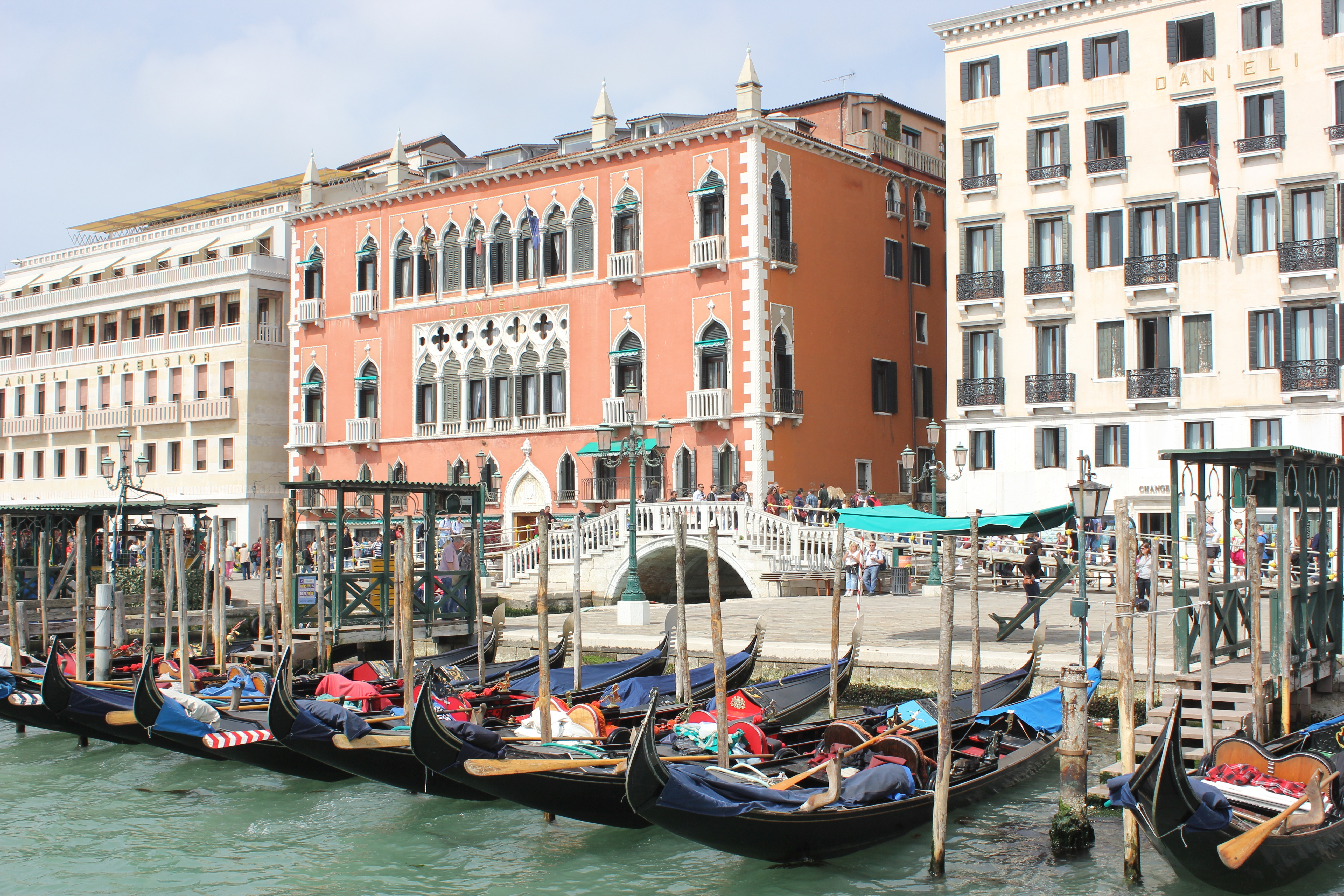 Venice - Riva degli Schiavoni